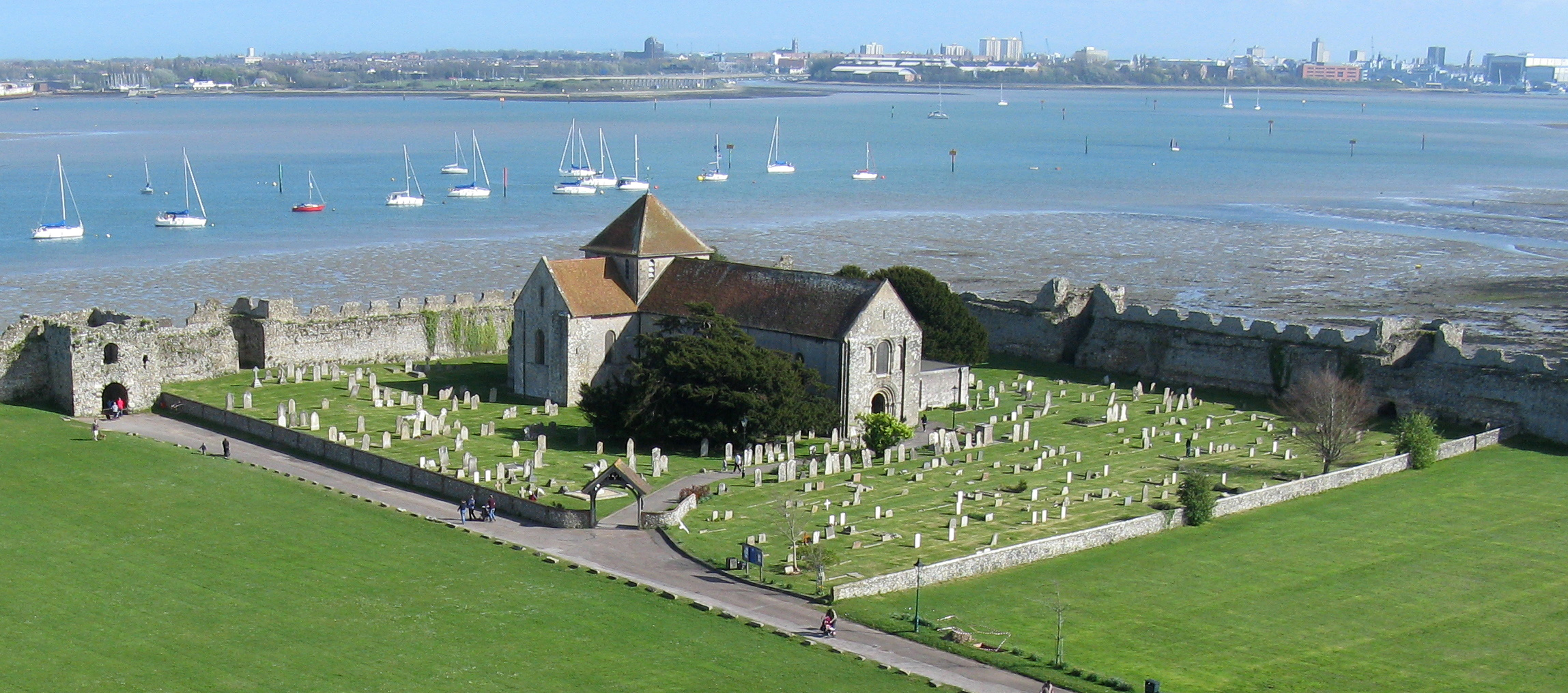 The 12th-century church within the outer bailey of Portchester Castle was founded for the priory. It is now the parish church.